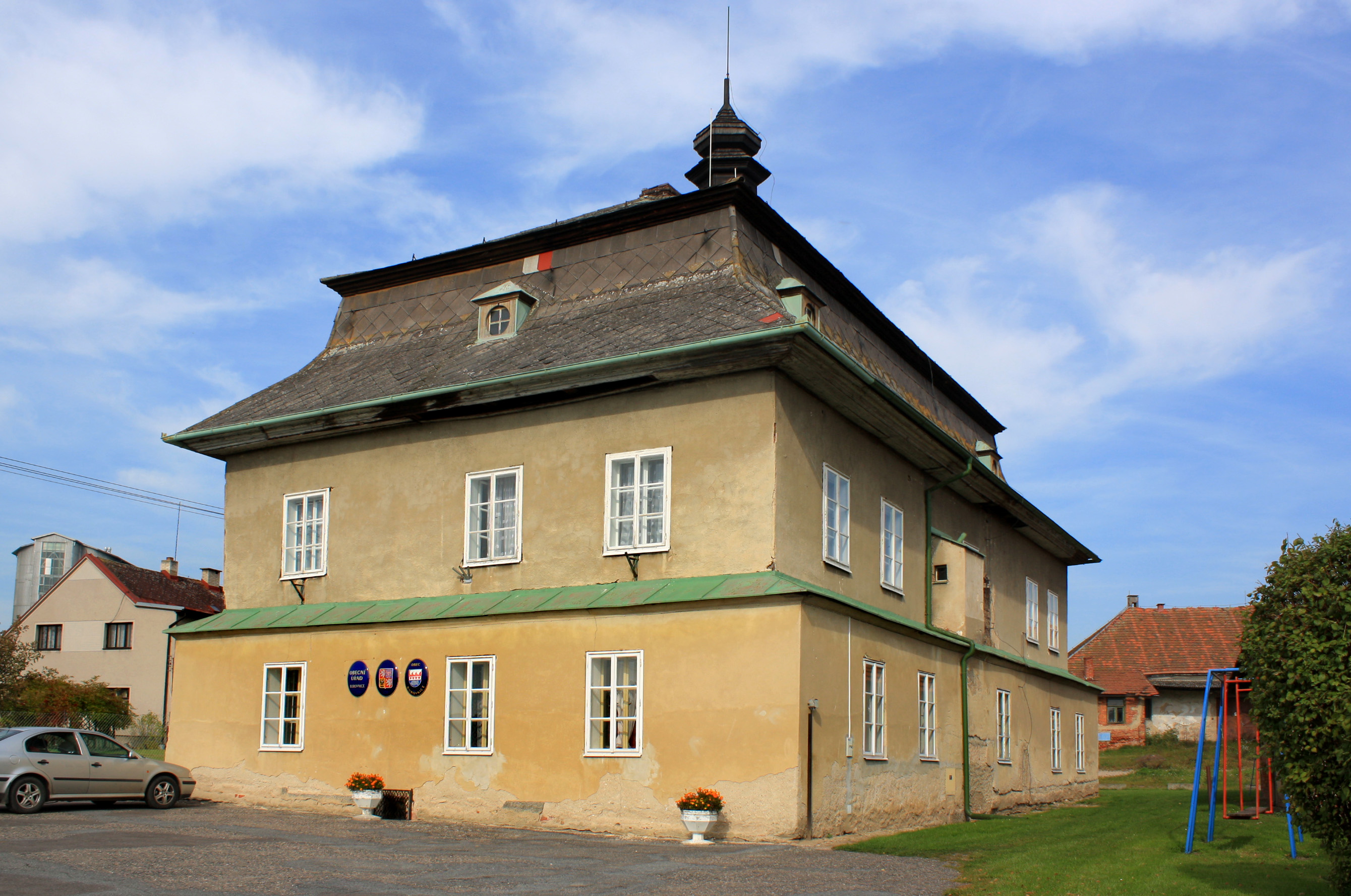 Castle in Přestavlky, part of Borovnice, Czech Republic